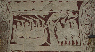 A detail from this pic: The original picture was taken by